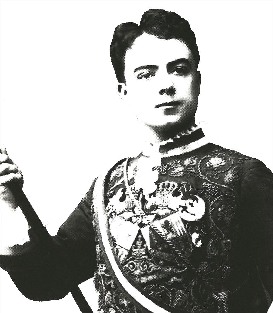 Publicity photo of Courtice Pounds as Marco in the Original D'Oyly Carte production of The Gondoliers 1889.